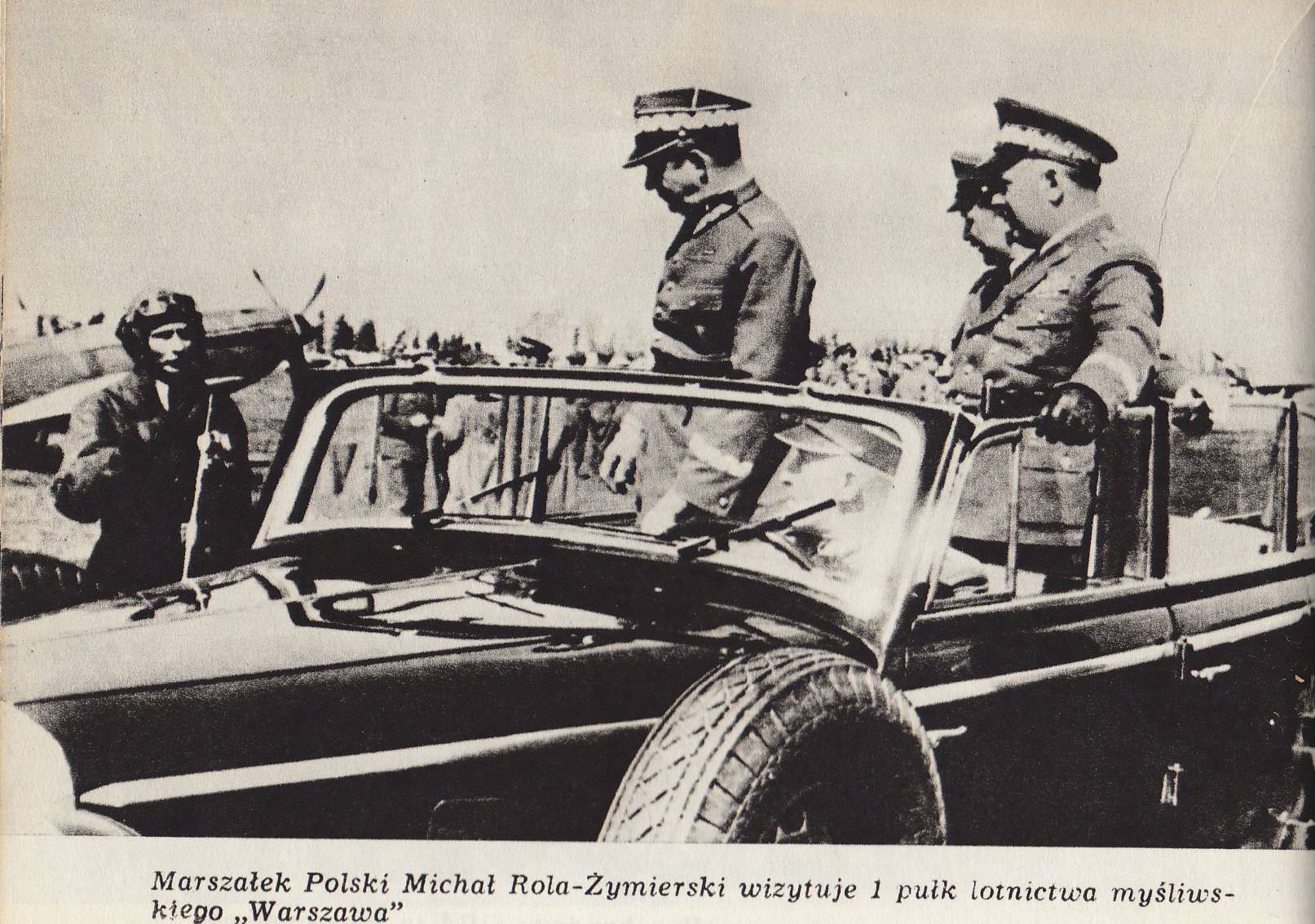 Marshal of Poland Michał Rola Żymierski visits 1 Pułk Lotnictwa Myśliwskiego "Warszawa" (1st Fighter Squadron "Warsaw")